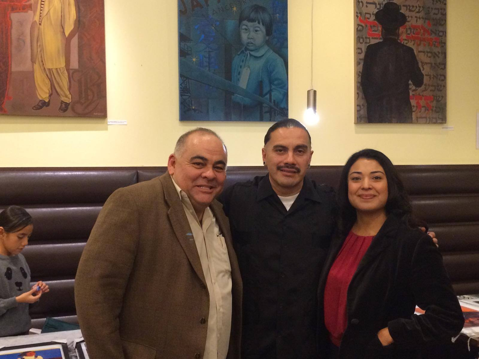 Picture of author and professor Dennis Sanchez with co-author Nancy Ramirez